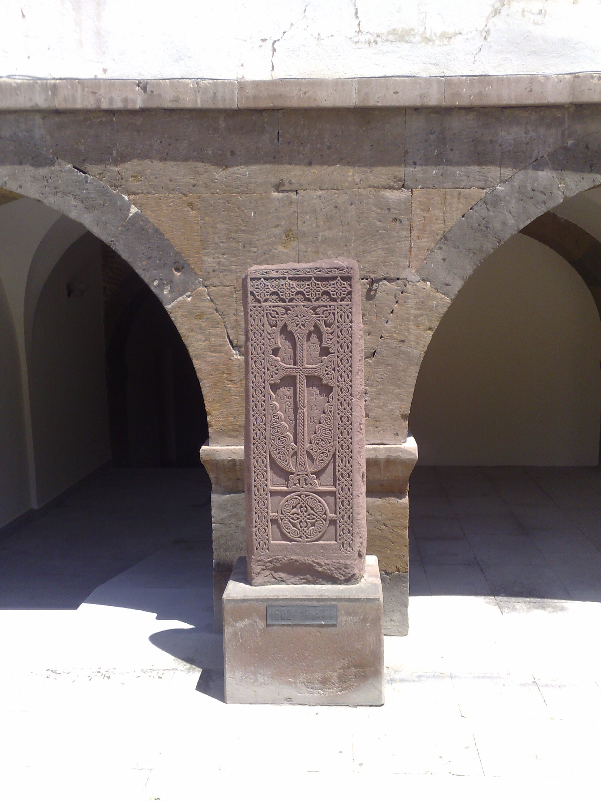 Khatchkar from Jugha (Julaf, modern Azerbaijan). XVII century.